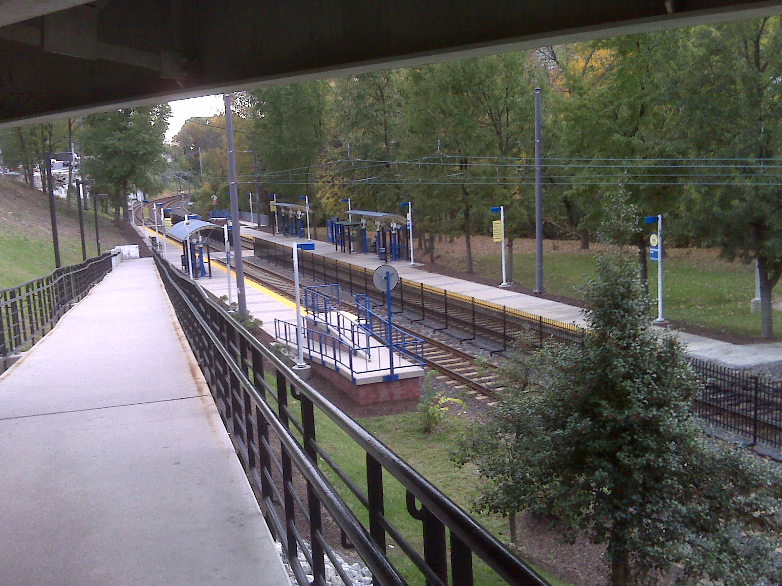 A view of MTA Maryland's Coldspring Station on its Light Rail system in Baltimore, Maryland.